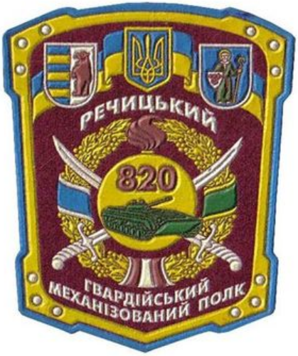 Shoulder sleeve insignia of the 820th Mechanized Infantry Regiment of the Ukrainian Army 128th Mechanized Infantry Division